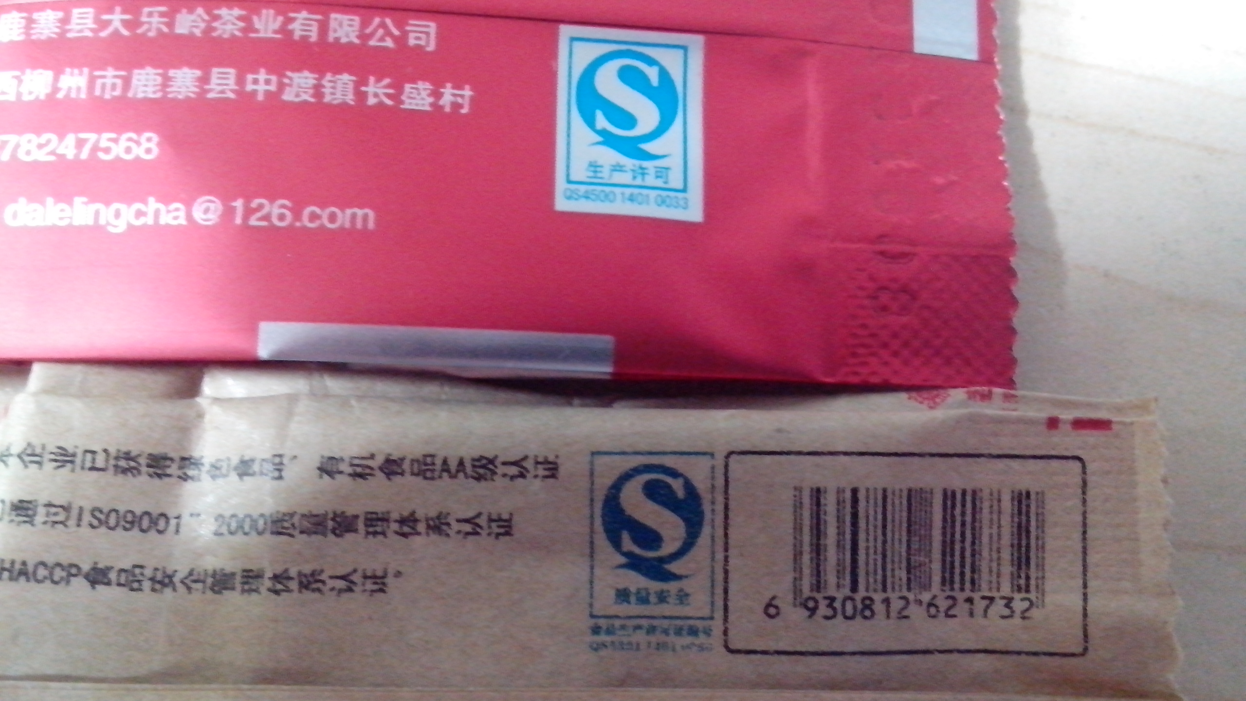 China Quality Safety logo